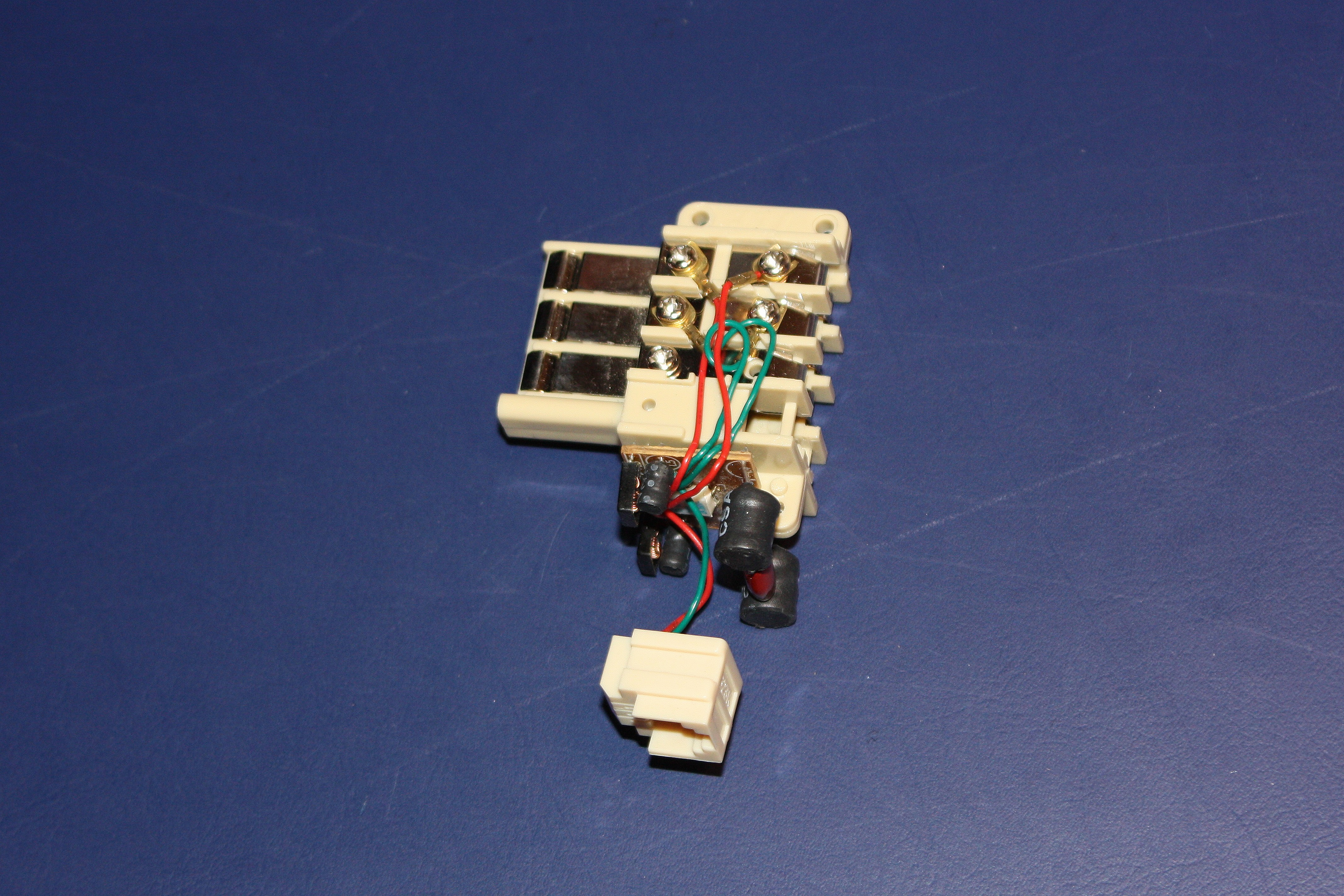 Detailed view of the components of a T-shaped ADSL splitter used on the french POTS and other similar phone networks.